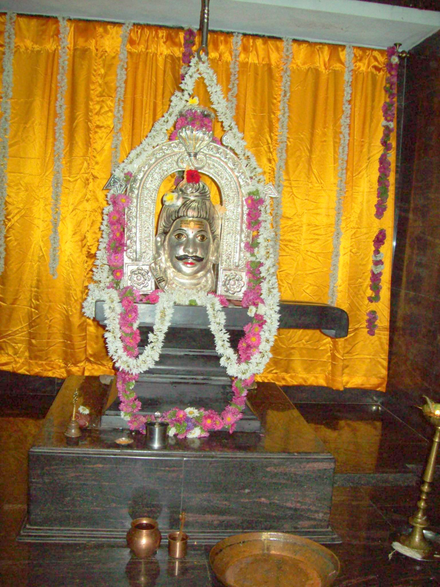 Shree Siddheshwar Temple, Karwar Balni